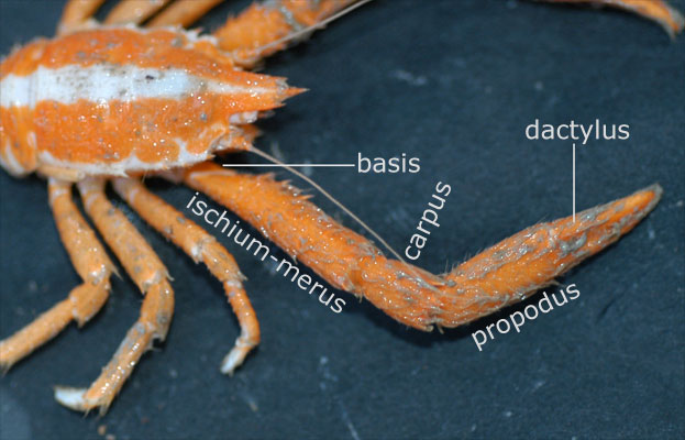 Own work, derived from public domain :Image:Munidopsis tridentata.jpg. Picture of a squat lobster, showing the segments of the first pereiopod.